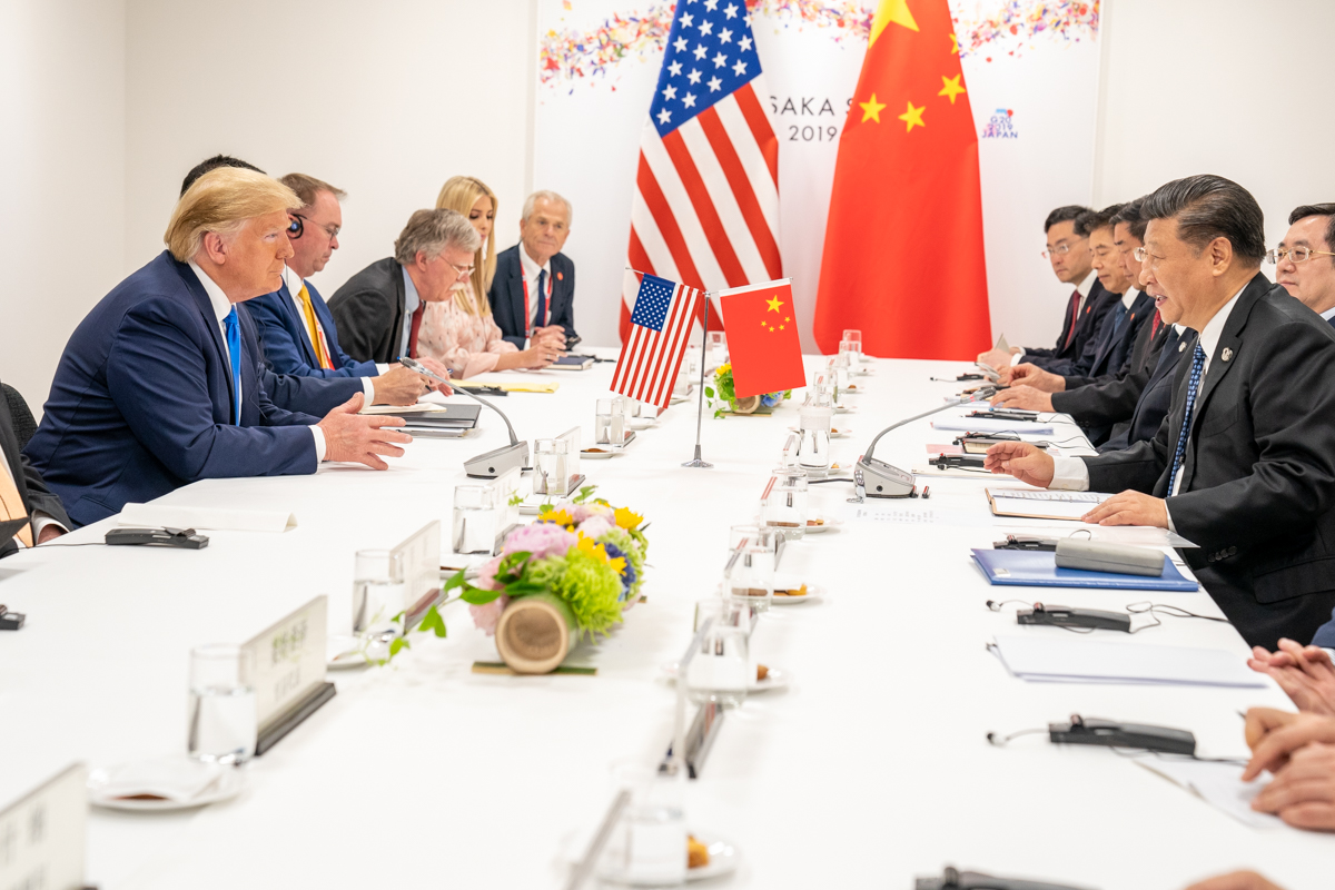 President Donald J. Trump joins Xi Jinping, President of the People’s Republic of China, at their bilateral meeting Saturday, June 29, 2019, at the G20 Japan Summit in Osaka, Japan. (Official White House Photo by Shealah Craighead)